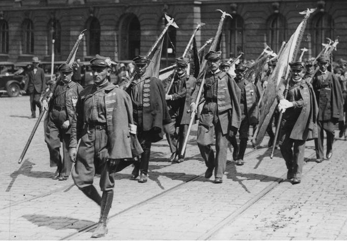 Towarzystwo Gimnastyczne Sokół Poznań